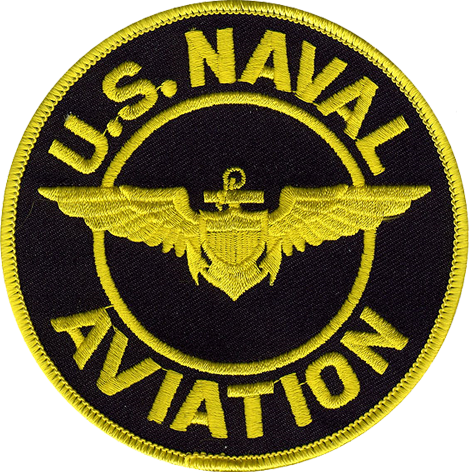 US Naval Aviation patch